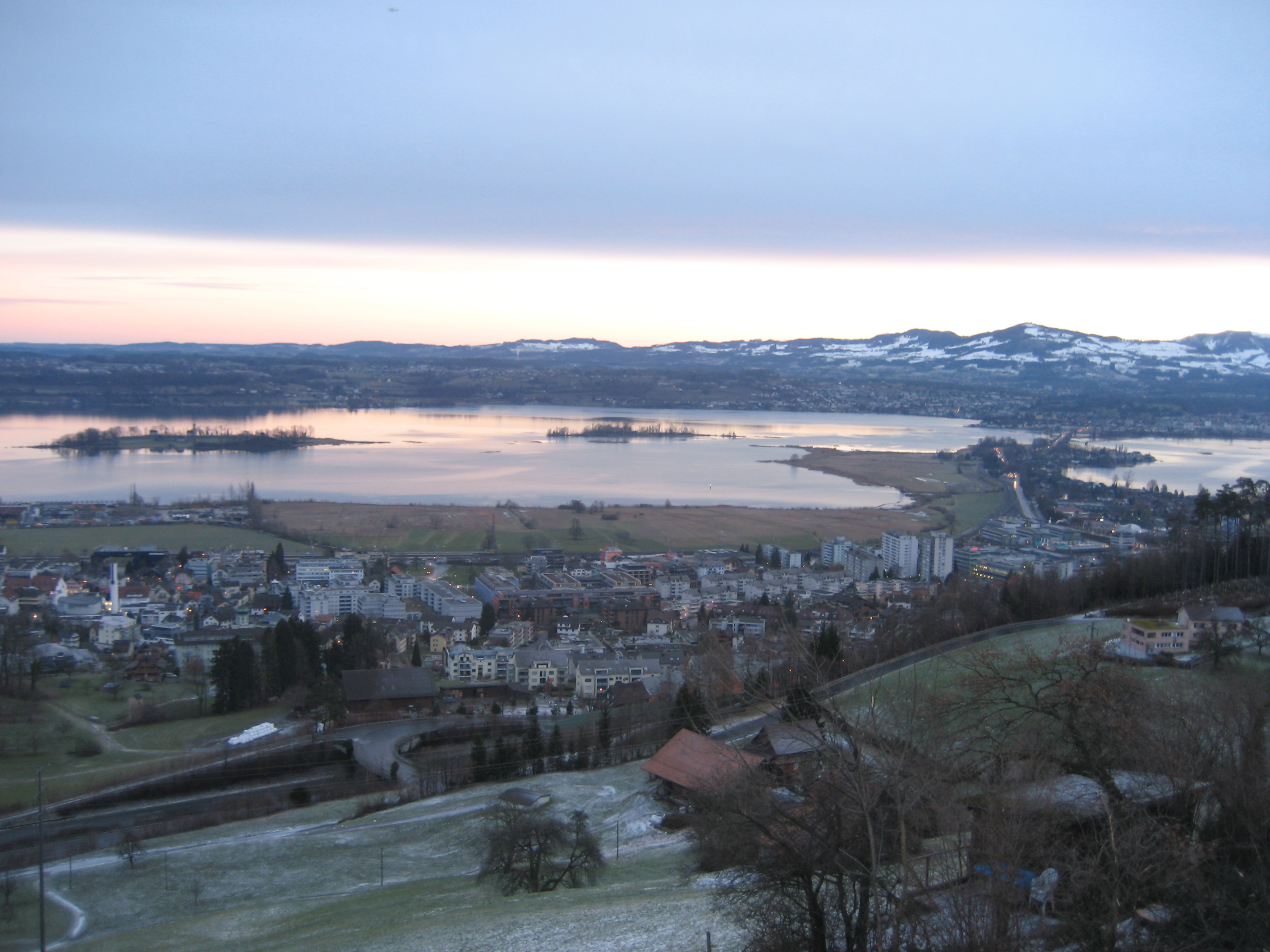 Lake Zurich - Pfäffikon - Seedamm - Rapperswil